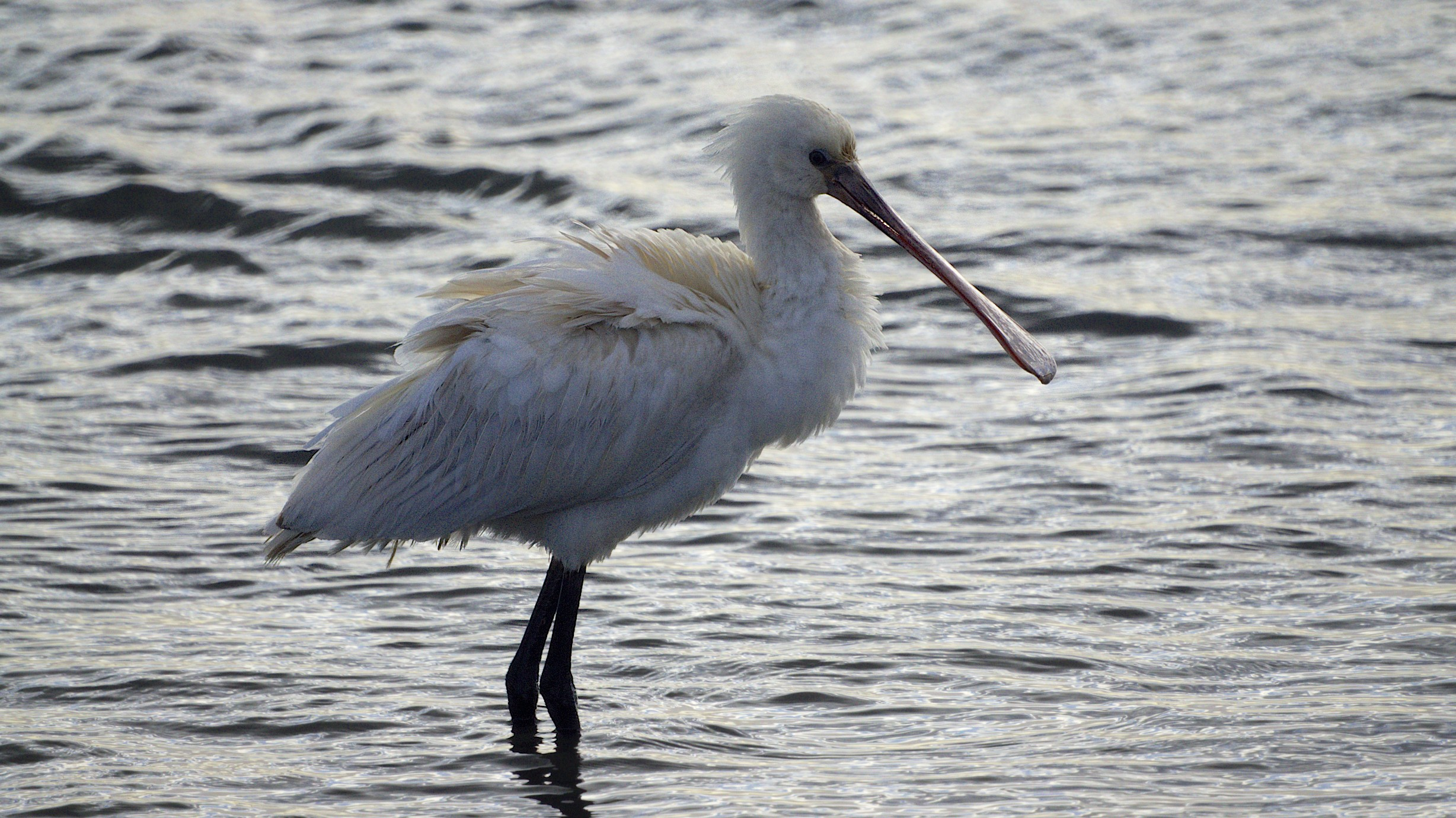 A solitary Spoonbill put on a splendid show for me this afternoon. It came in so close to feed that I had to back off so I could frame it with my 500 lens.